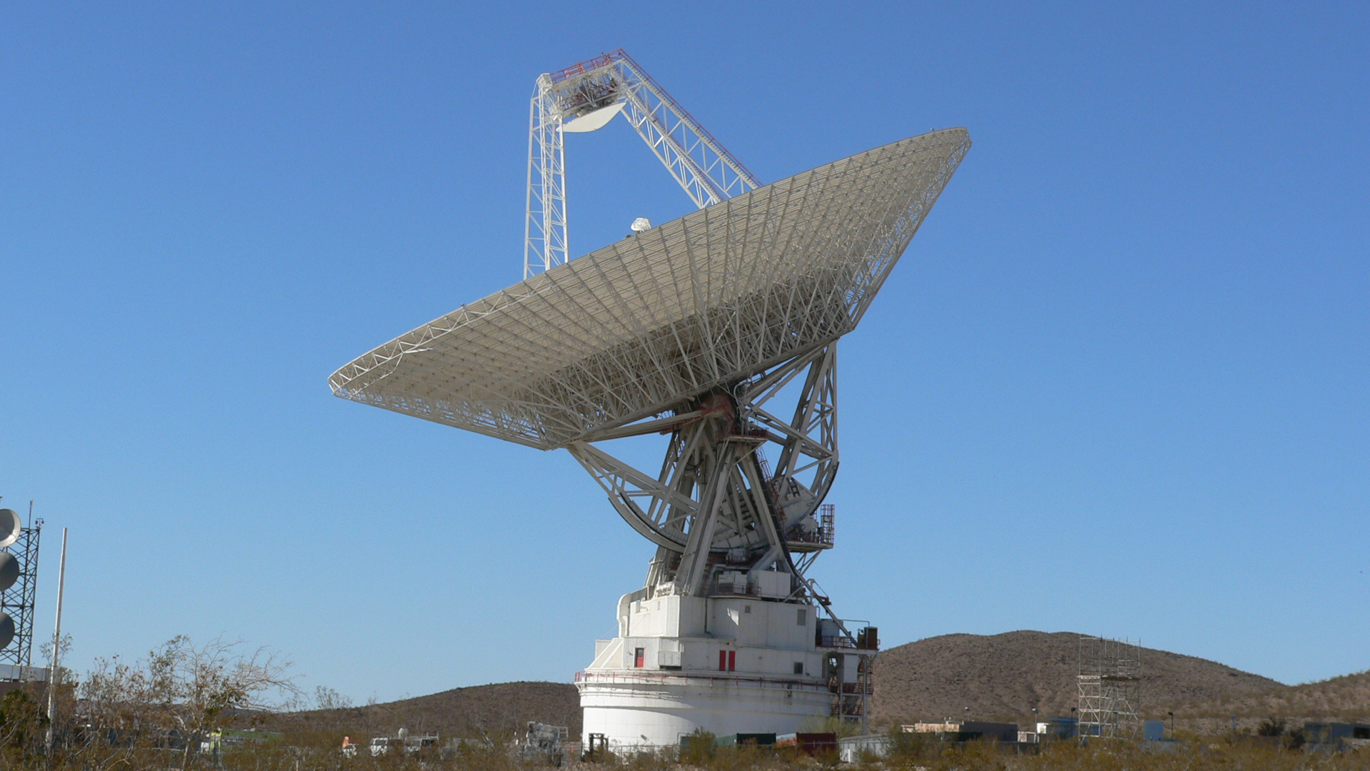 The 70-meter antenna at the Goldstone Deep Space Communications Complex in the Mojave Desert in California, officially named Deep Space Station 14 and nicknamed Mars Antenna. This complex is one of three comprising NASA's Deep Space Network.